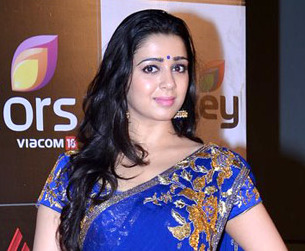 Charmy Kaur at the official launch ceremony of the fourth season of Celebrity Cricket League